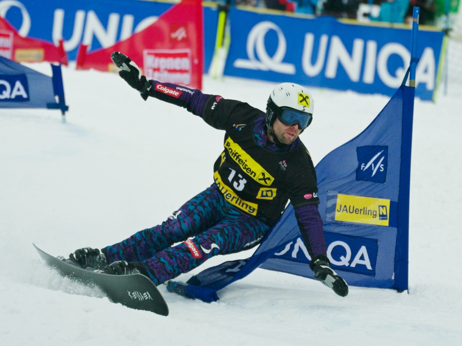 Austrian snowboarder Andreas Prommegger in the qualification round of the World Cup Parallel Slalom at the Jauerling in Austria on 13 January 2012.